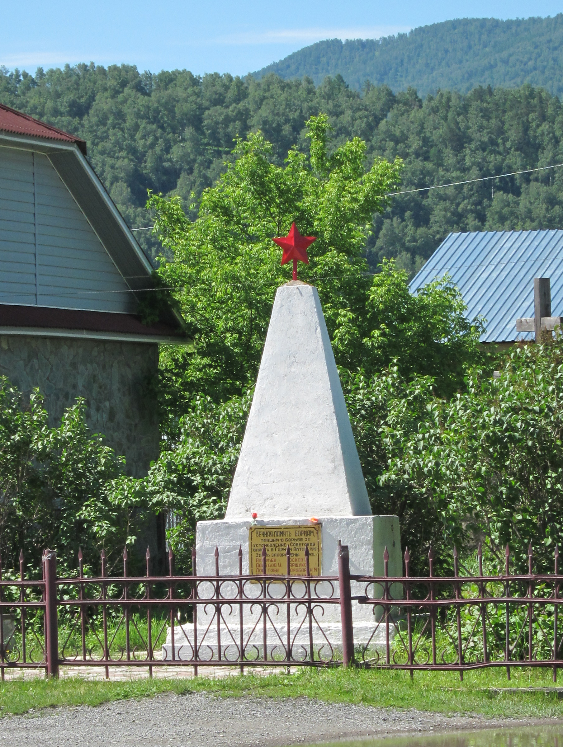 Memorial to fallen in struggle for Soviet power in Altai (Chemal settlement)